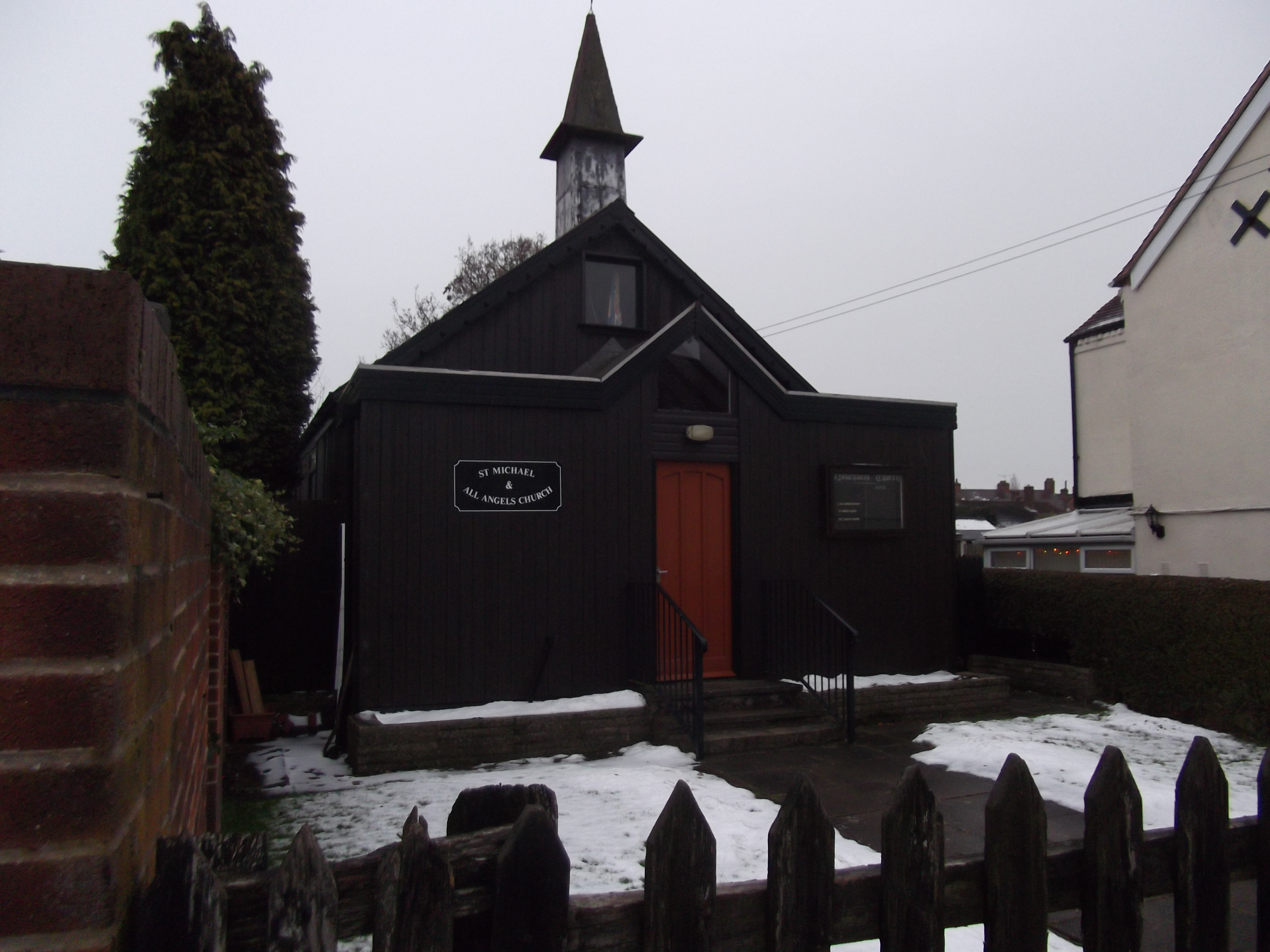 St Michael & All Angels Church, Wood End on a a cold day.